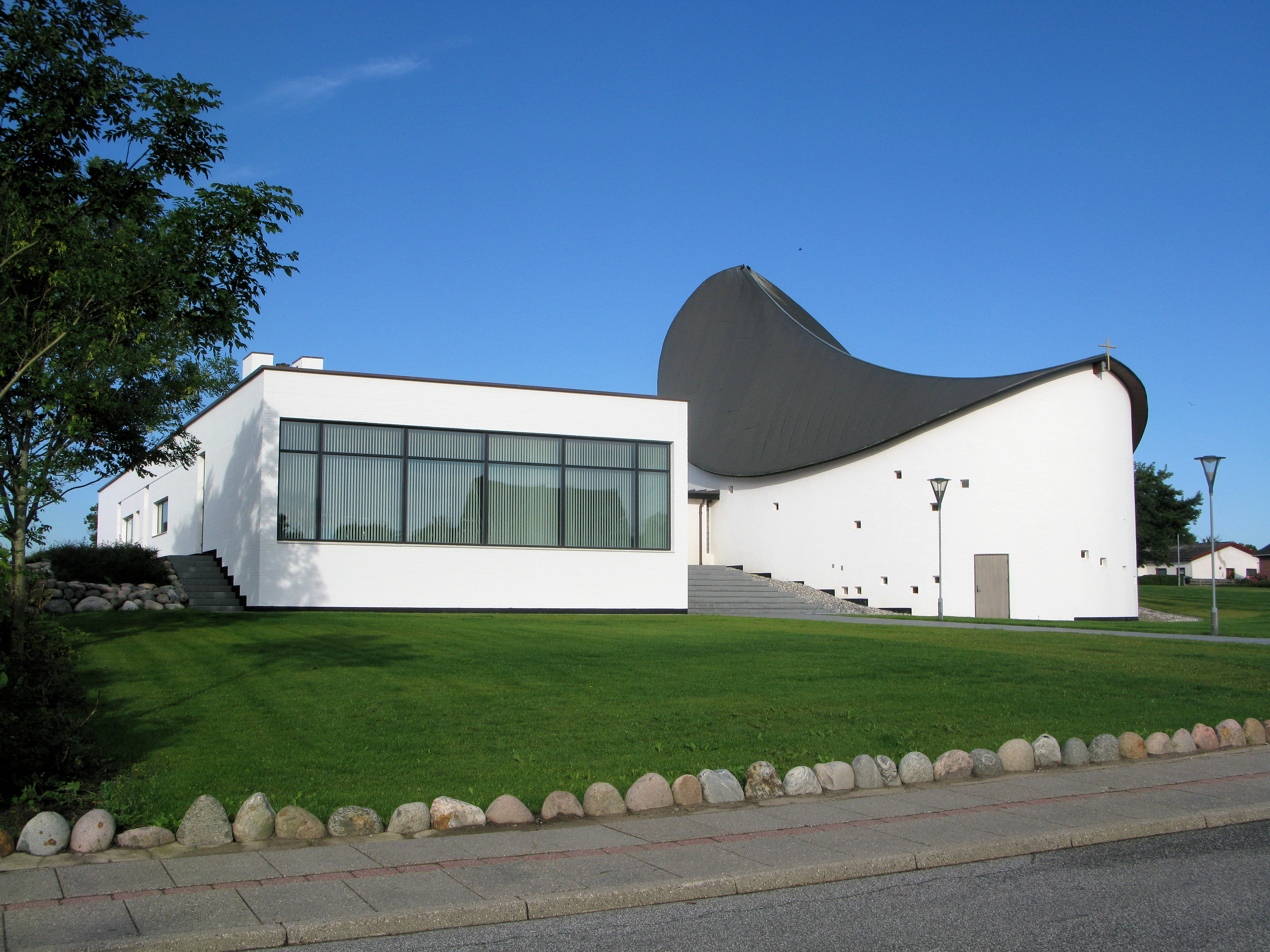 Church of Strandby, Northern Denmark